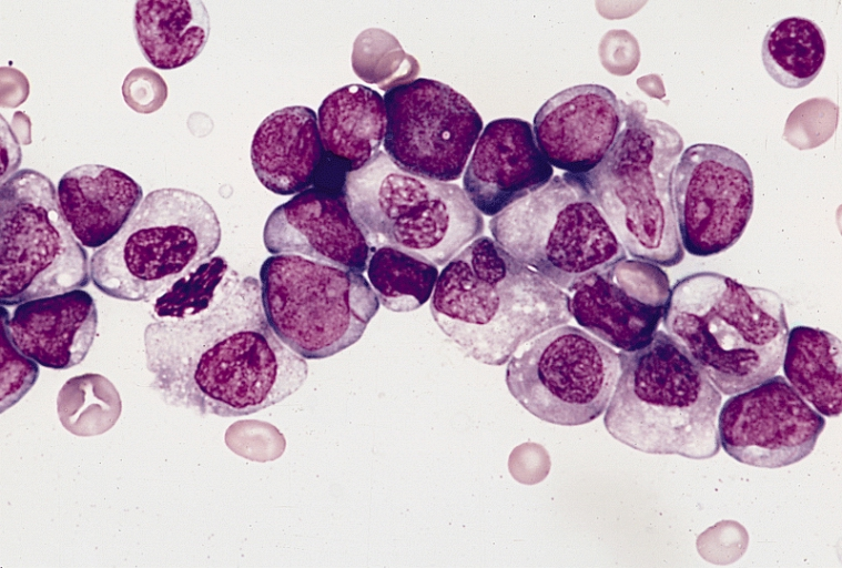 BONE MARROW: ACUTE MYELOBLASTIC LEUKEMIA WITH MATURATION (AML-M2) ASSOCIATED WITH A t(8;21) CHROMOSOME ABNORMALITY Bone marrow smear from a 23-year-old female with acute myeloblastic leukemia with maturation associated with a t(8;21) chromosome abnormality. The numerous myelocytes have abundant cytoplasm with prominent specific granulation. One of the myeloblasts to the left of center contains a prominent Auer rod. (Wright-Giemsa stain)